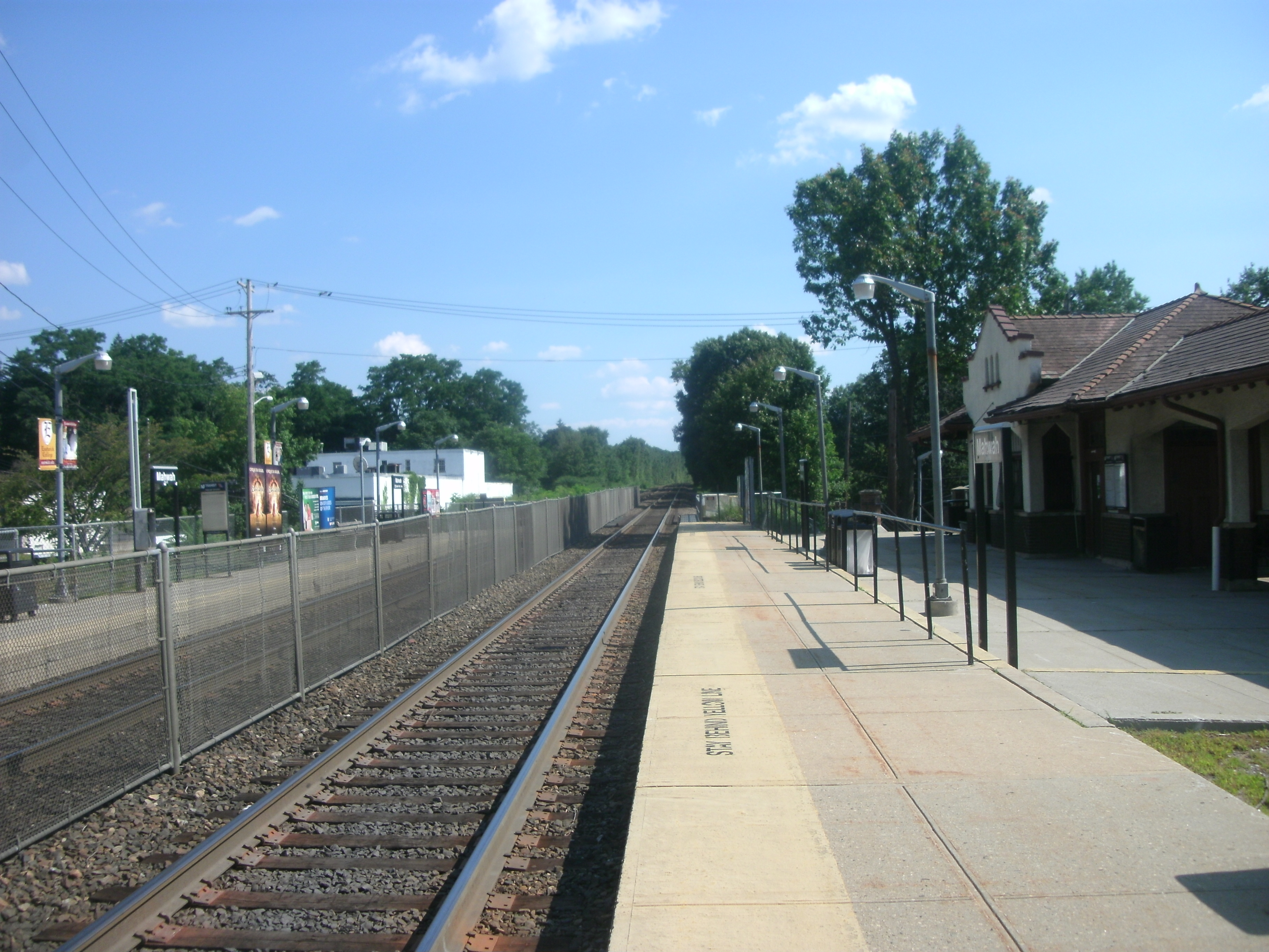 Facing southbound on the NJ Transit Main Line towards the 1915 station depot built by the Erie Railroad in Mahwah, New Jersey.